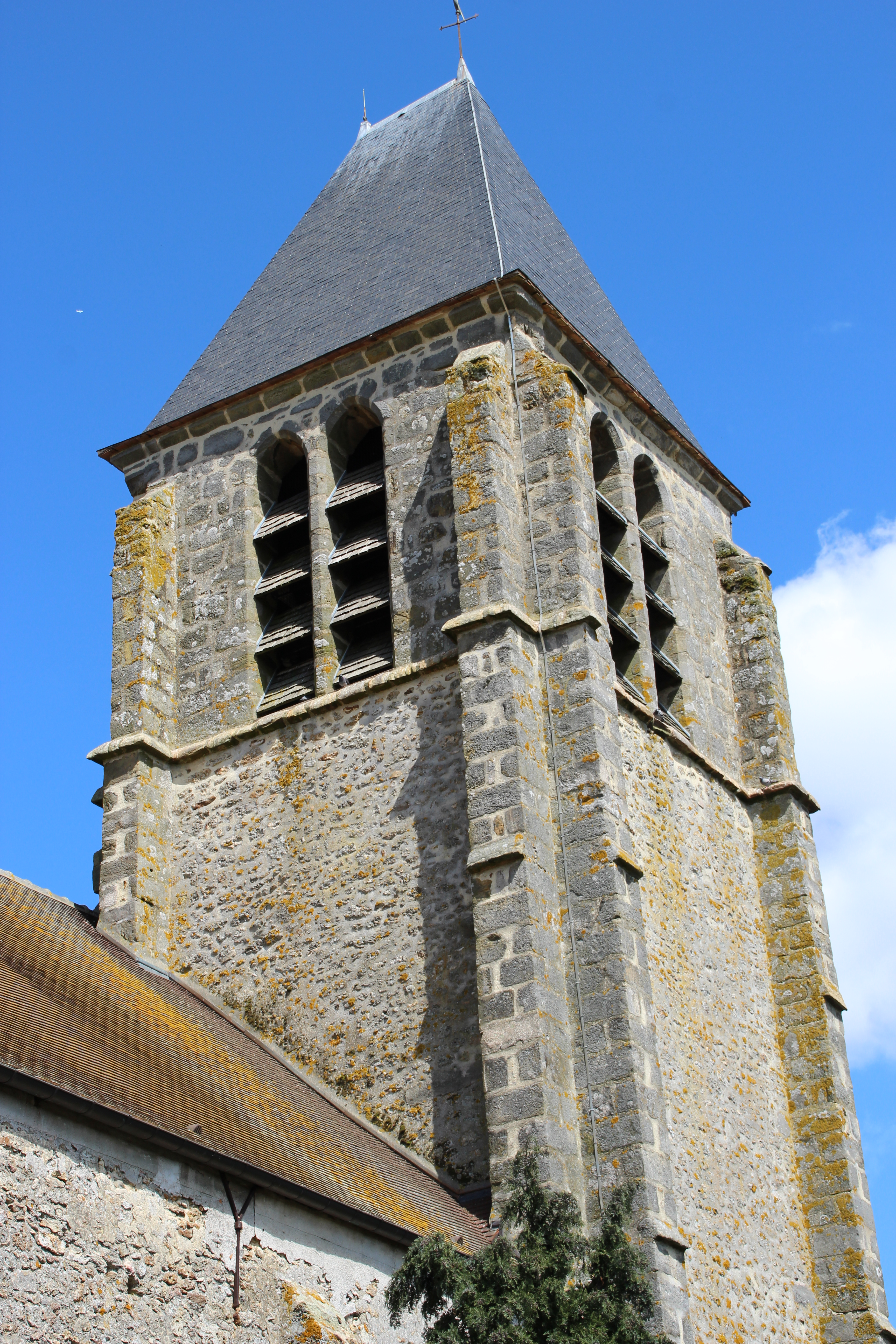 Saint-Germain church of Gometz-la-Ville, France. Object location48° 40′ 17.51″ N, 2° 07′ 31.62″ E